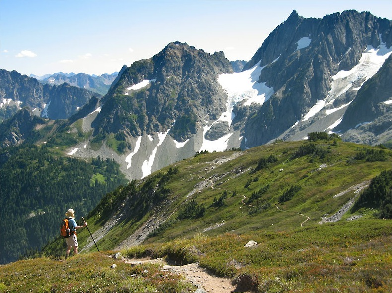 Pelton Peak, Yawning Glacier and Magic Mountain (left to right) from Sahale Arm north of Cascade Pass, North Cascades National Park, Washington, United StatesCascade pass